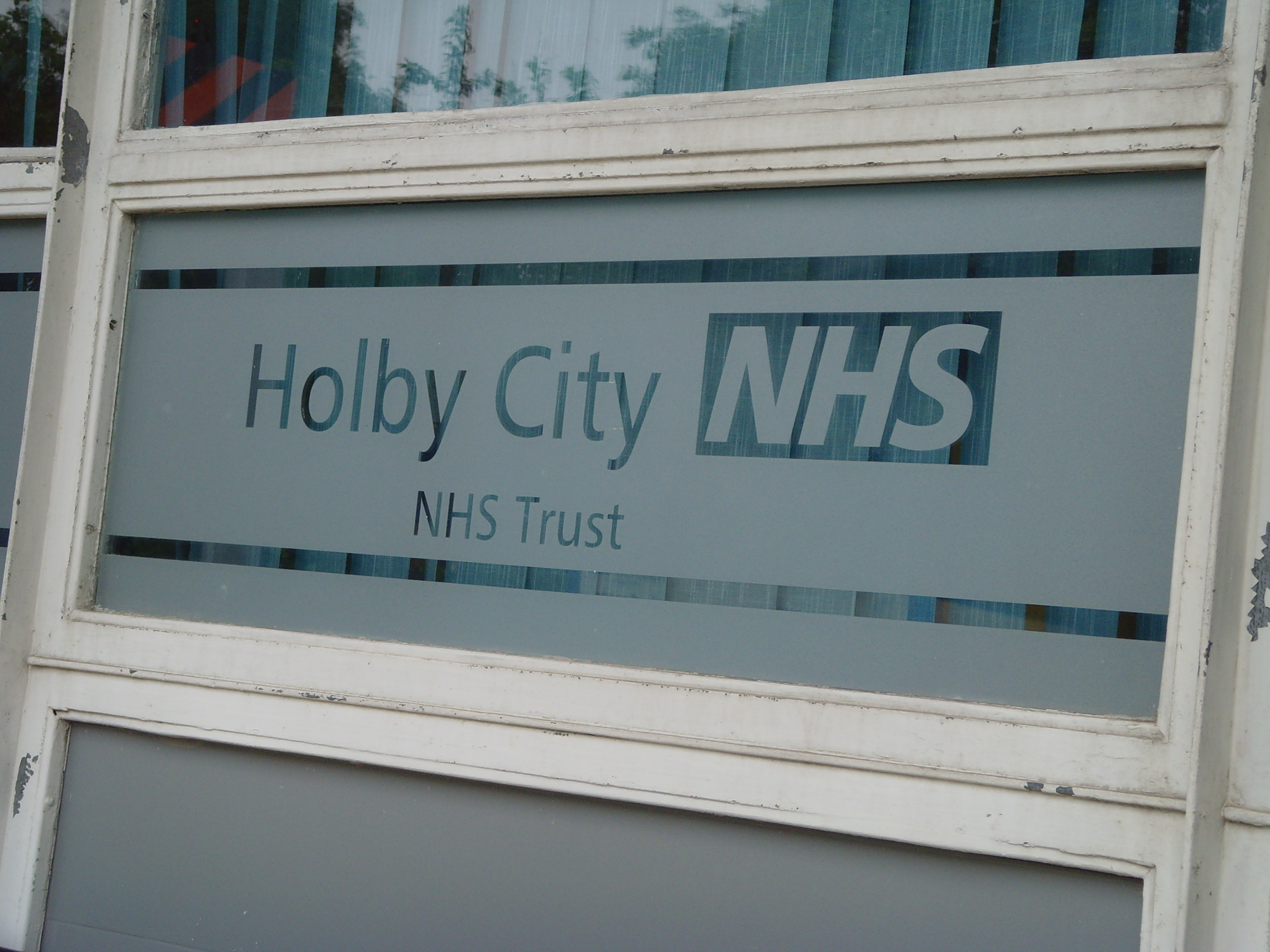 The Holby City fictional hospital set, at the BBC's Elstree Studios.